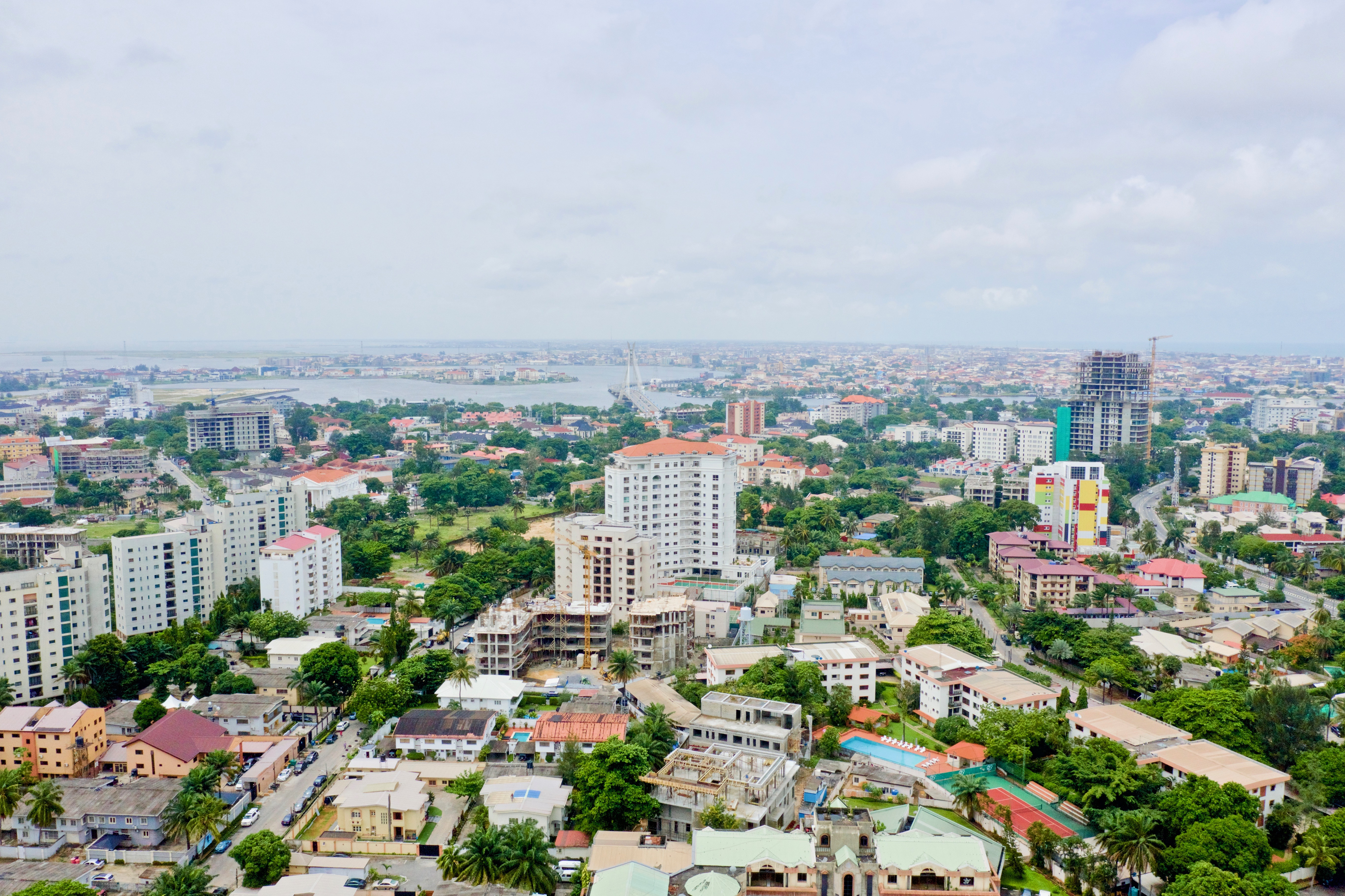 Ikoyi is an upper-class suburb of the Lagos megacity. Beyond the bridge is the fairly new settlement called Lekki Phase 1.